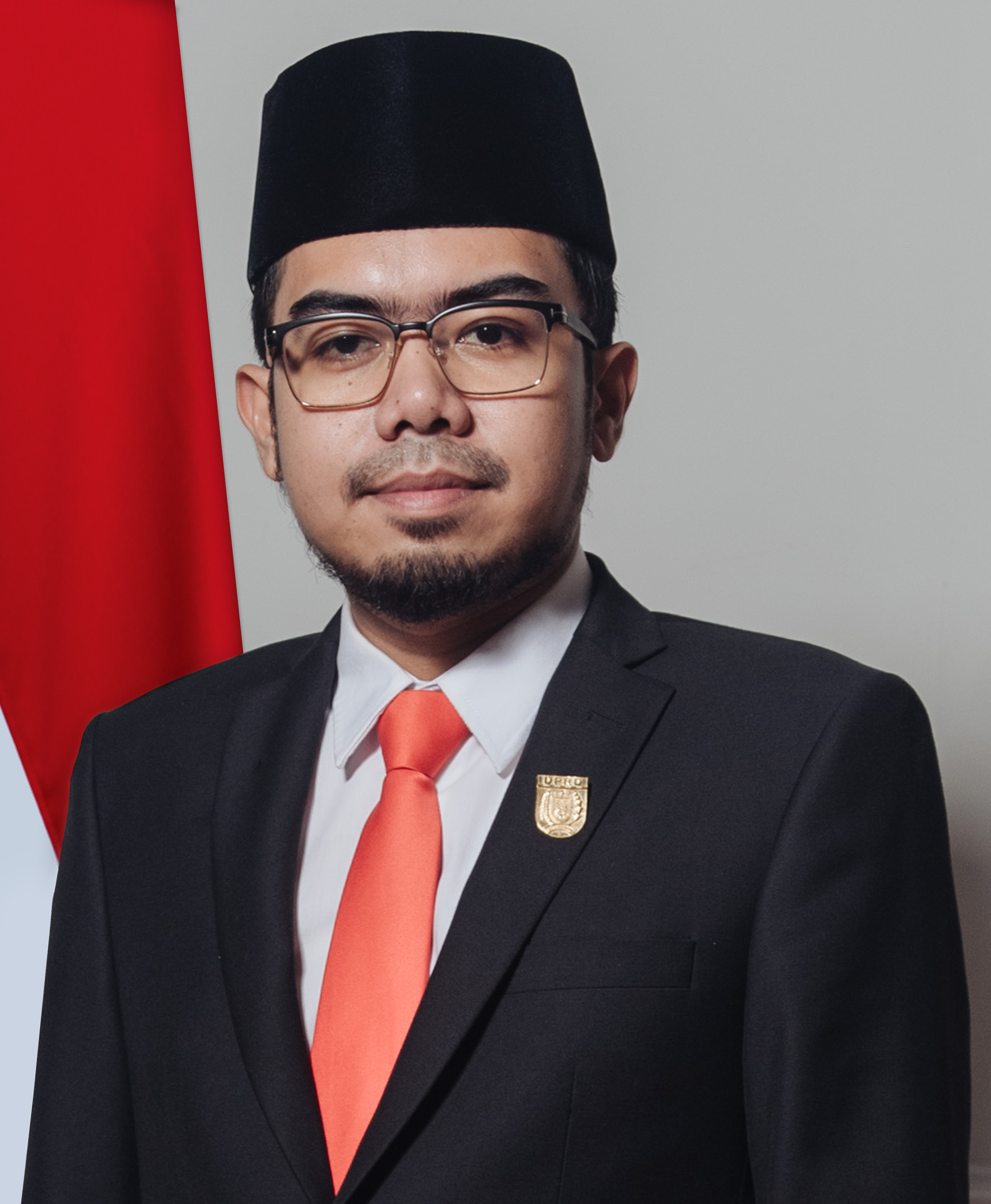 Ginda Burnama. Deputy Chairperson of Pekanbaru City Council Gerindra Party Faction.